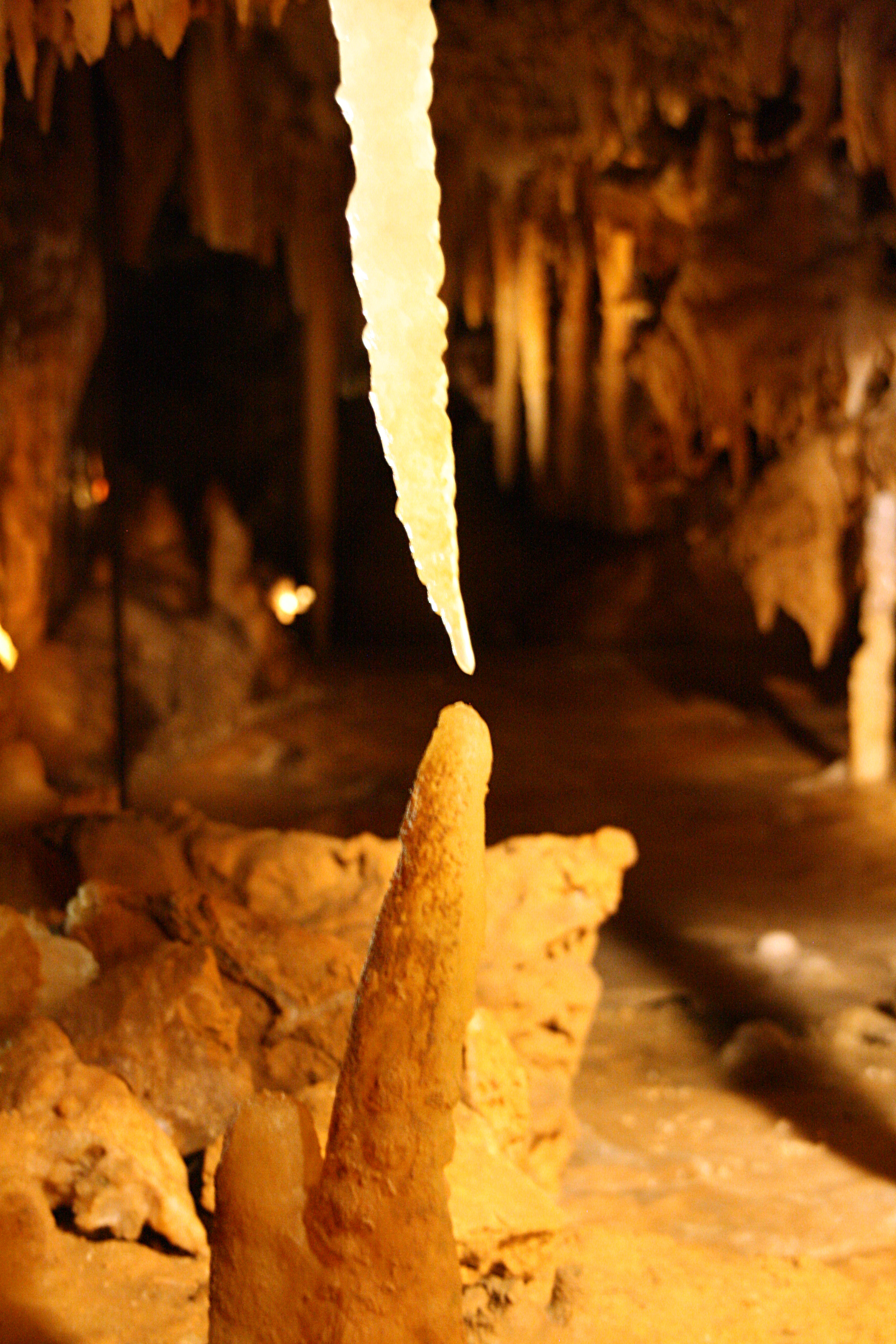 Stalactite and stalagmite in the Grand Roc cave ("Big Rock"), Les Eyzies de Tayac, Dordogne, France. In three centuries, they will made a column. This cave contains a lot of limestone cave formations. It's a Unesco World Heritage site, as part of the "Prehistoric Sites and Decorated Caves of the Vézère Valley".